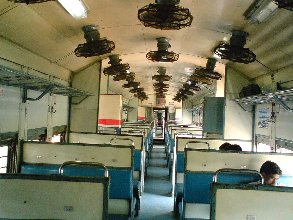 Second class seating compartment, for journeys less than 200 KM.